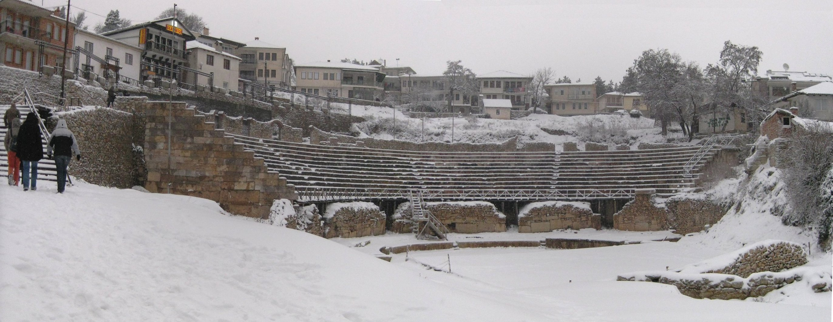 Amphitheater in Ohrid, Macedonia